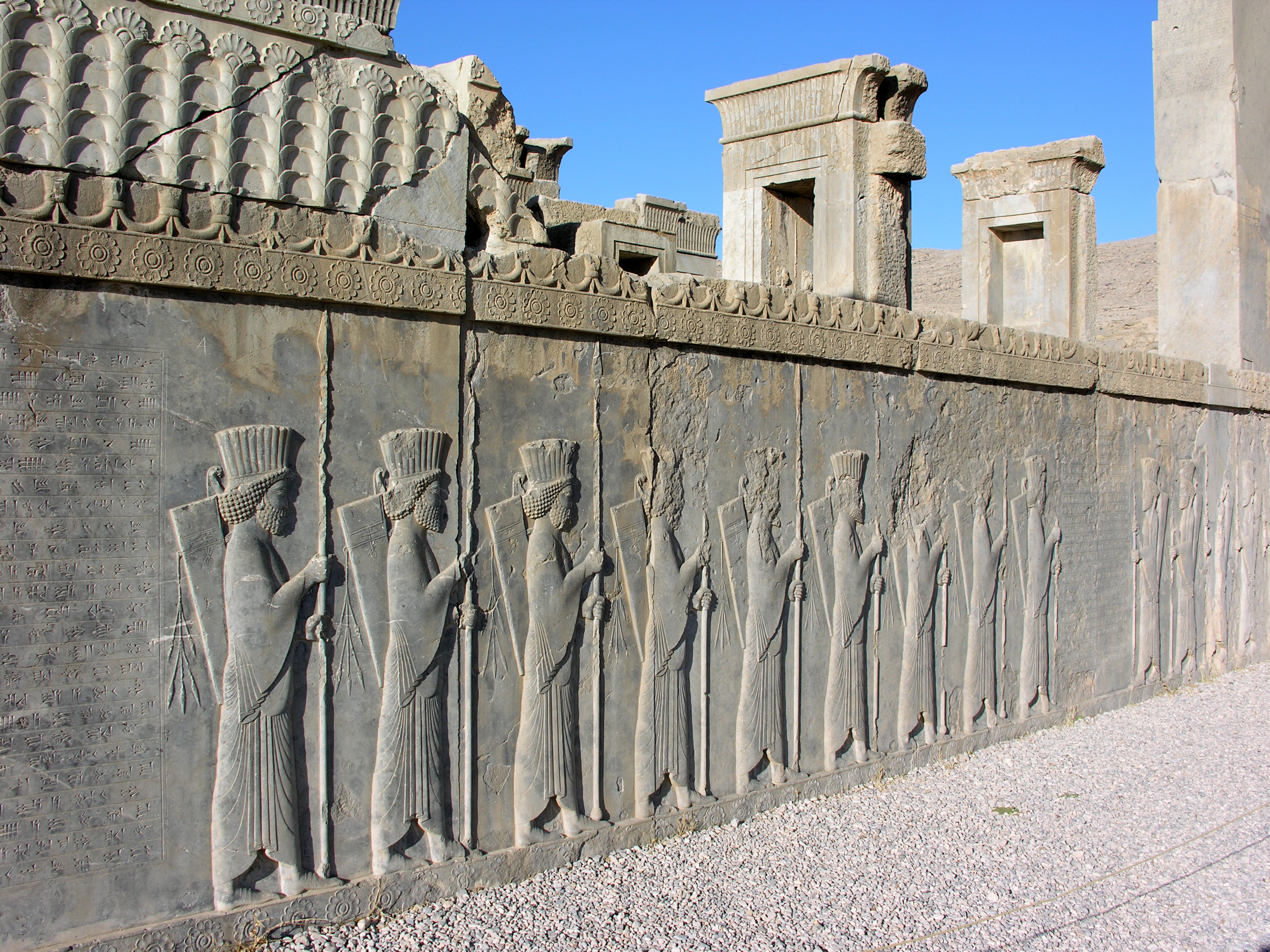 Iran, Tachara Palace of Darius I